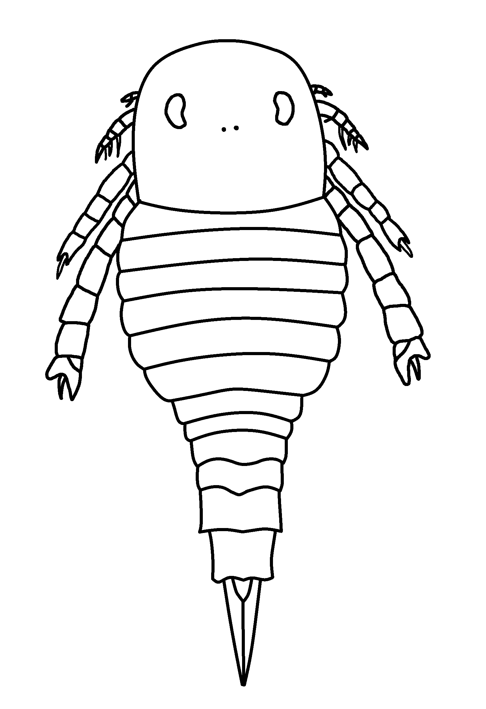 Restoration of the eurypterid species Onychopterella augusti, based in Braddy et al., 1995